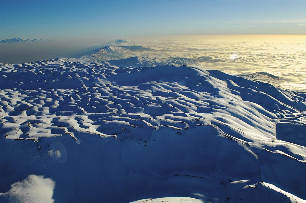 Al-kumma-qornet-el-sawda-bsharri